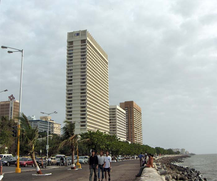 Oberoi hotel, Nariman Point, Bombay Source: Taken by me on 11-Aug-2005